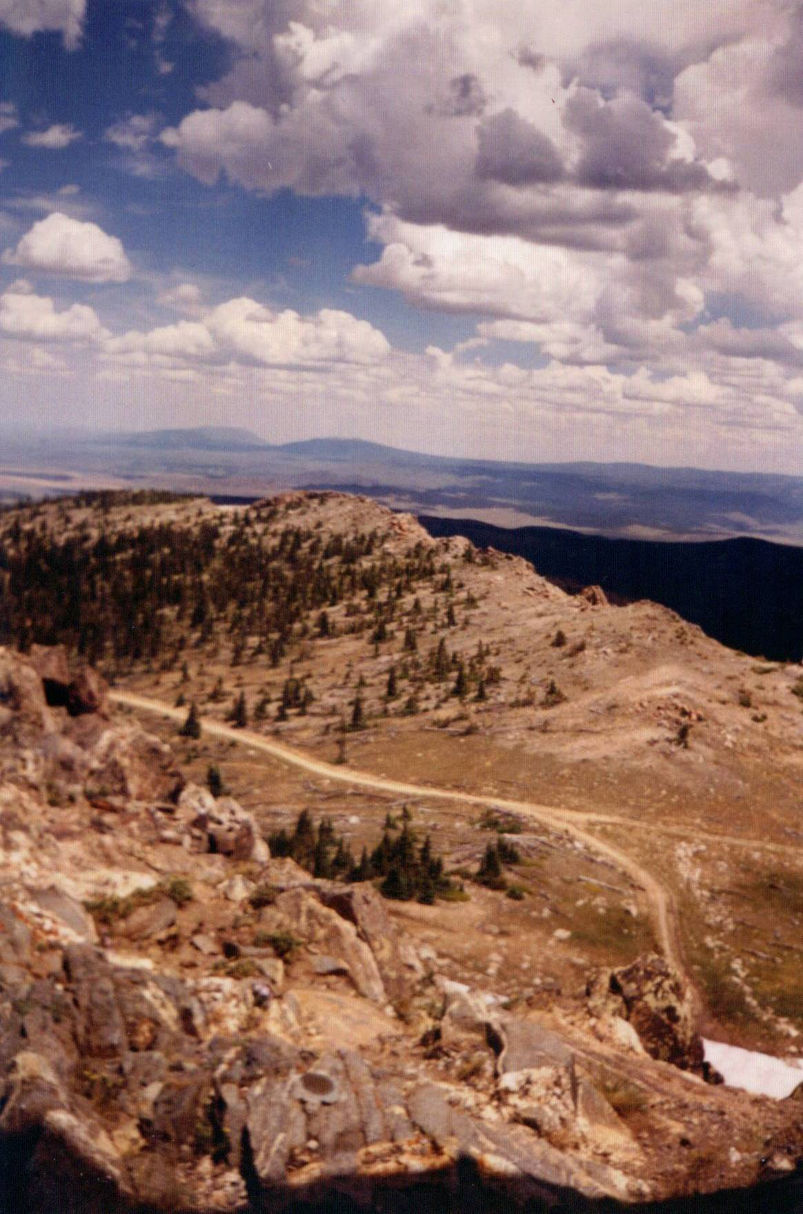 A backcountry road in southeastern Wyoming in the Sierra Madre Range near Bridger Peak. I took this photo myself in the late 1990s.